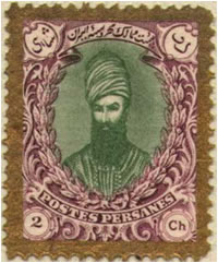 Karim Khan stamp, Karim Khan Zand was one of the generals of Nader Shah Afshar. After Nader Shah's death in 1747, Persia fell into a state of civil war. At that time, Karim Khan, Abolfath Khan and Ali Mardan Khan reached an agreement to divide the country among themselves and give the throne to Ismail III. However, the cooperation ended after Ali Mardan Khan invaded Isfahan and killed Abdolfath Khan. Subsequently, Karim Khan killed Ali Mardan Khan and gained control over all of Iran except Khorasan, ruled by Shahrokh, grandson of Nader Shah. Nevertheless, he did not adopt the title of Shah for himself, preferring the title, Vakil e-Ra'aayaa (Advocate of the People = People's President)